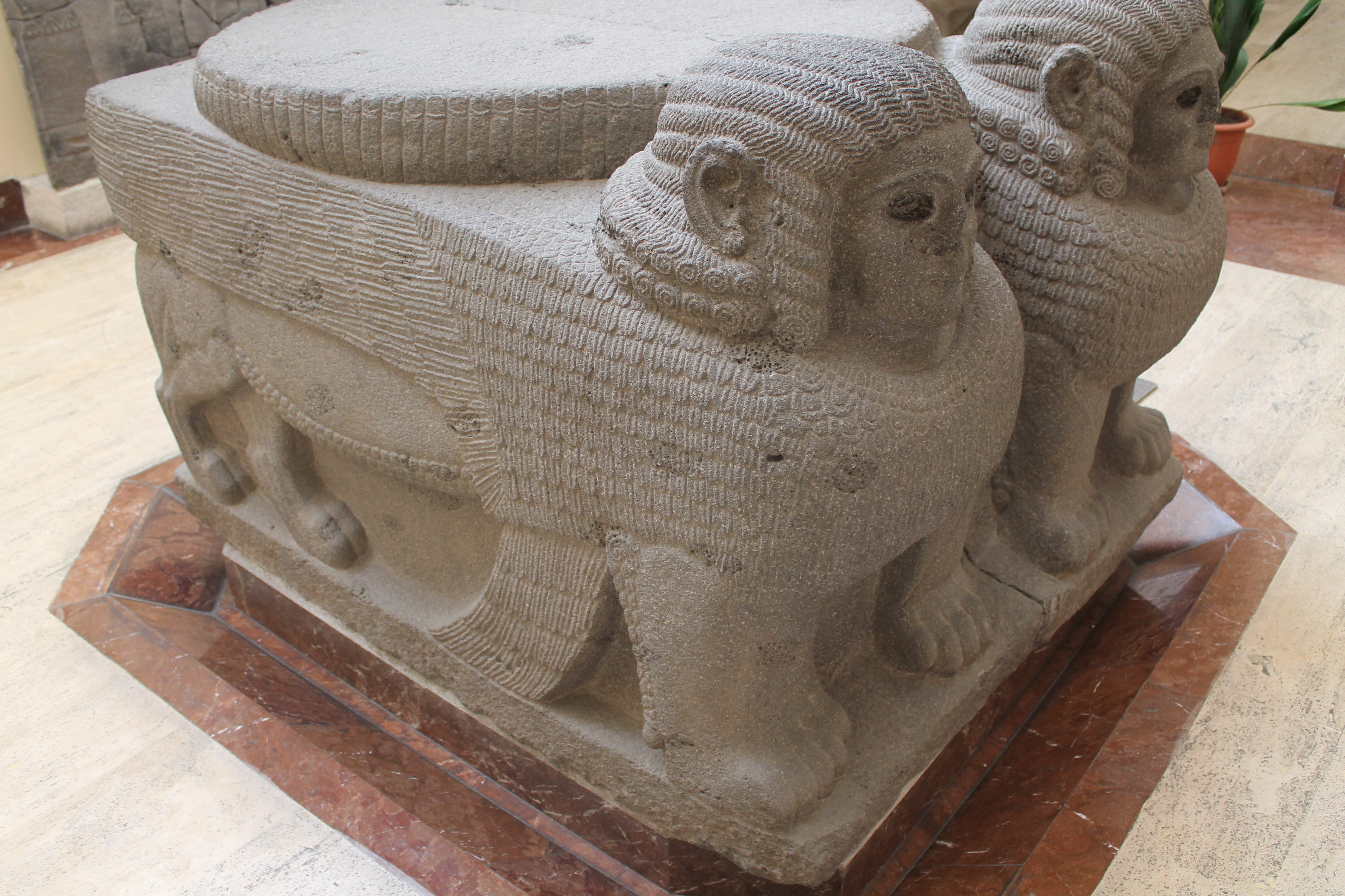 Hittite Sphinx in Istanbul Archaeological Museum